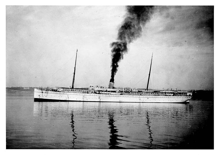 An image showing the SS Victoria with a white hull. This photograph shows Victoria prior to her 1924 refit, dating this photograph at some point between 1894 and 1924.